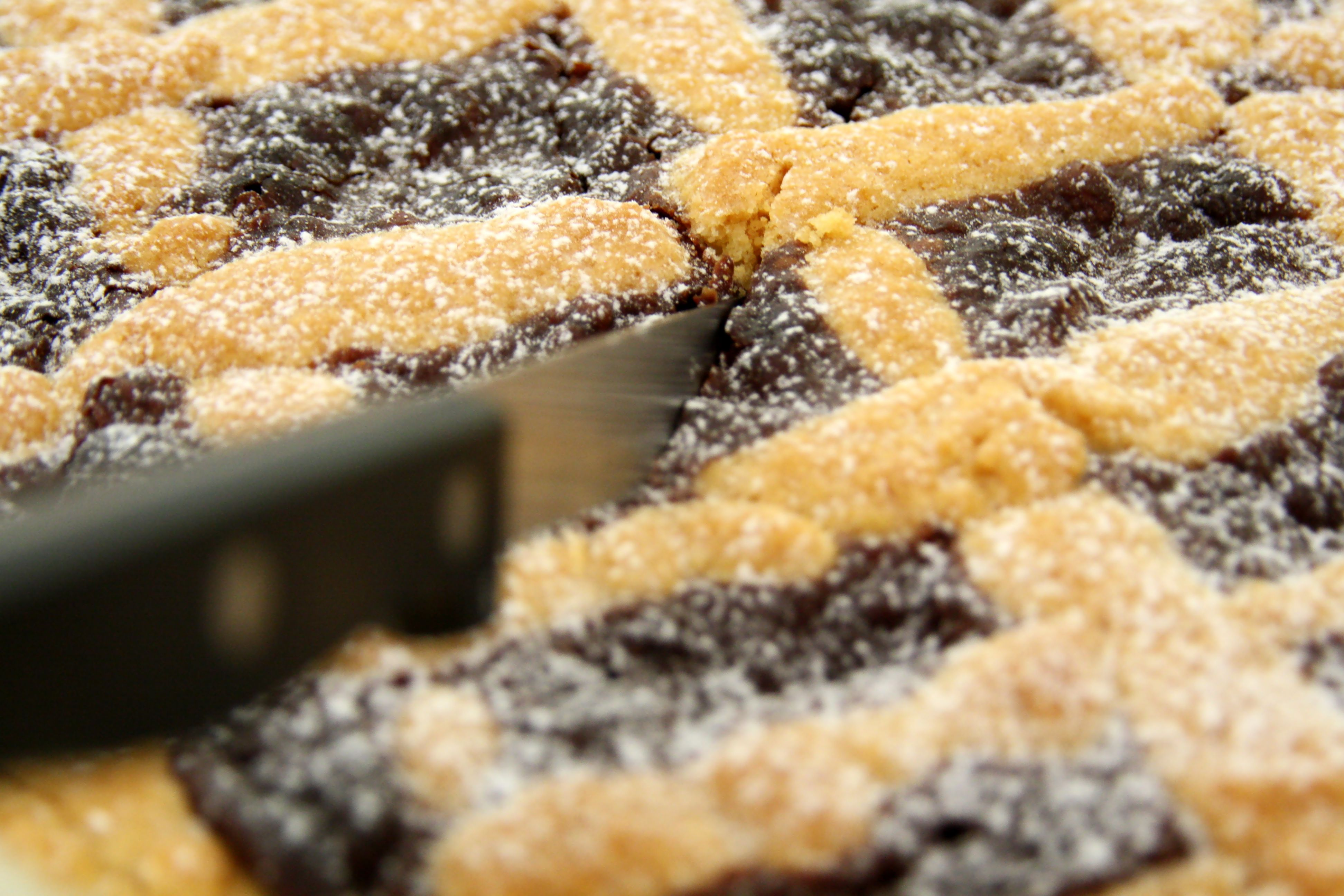 Crostata being cut.